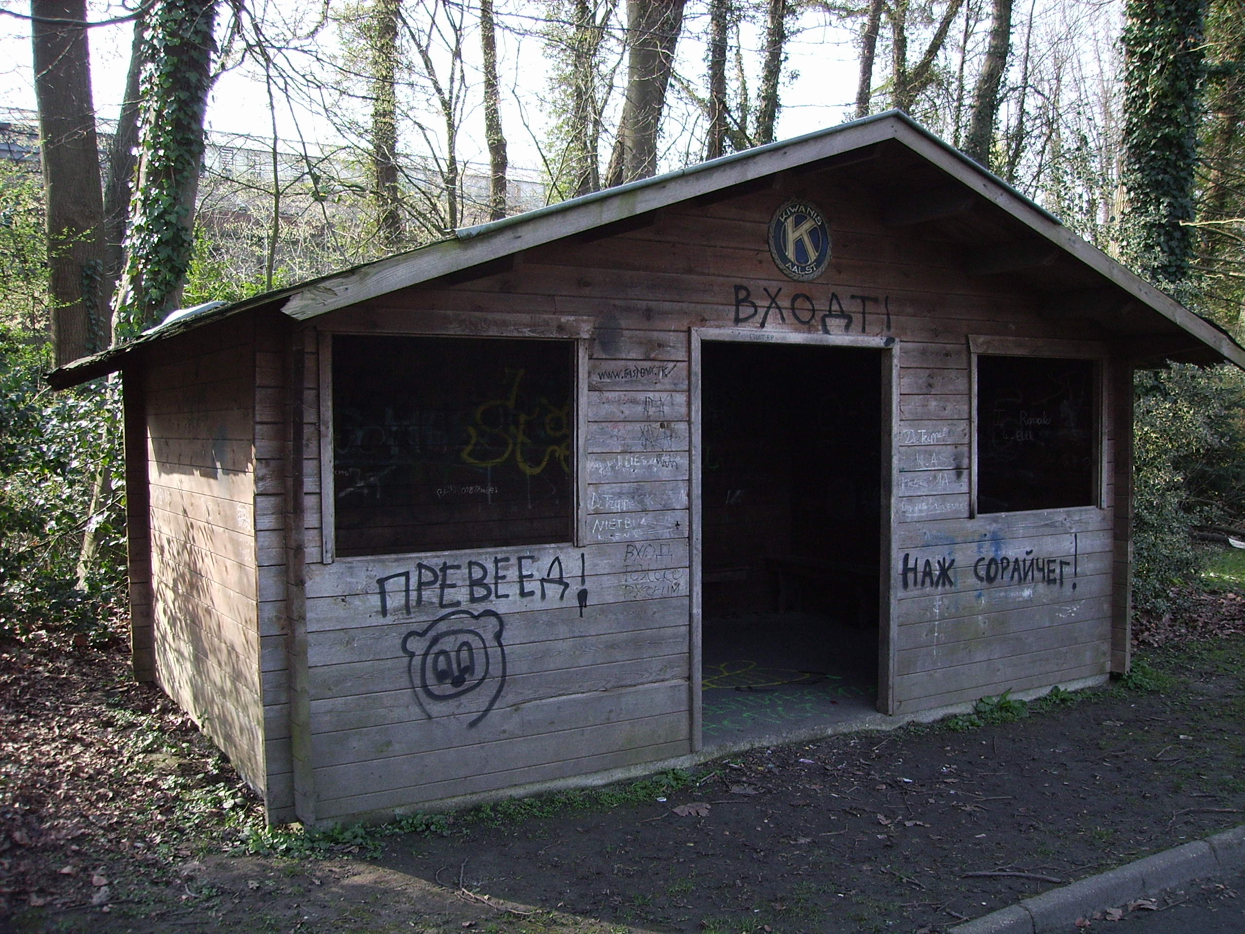 Preved graffiti (associated with Russian padonki subculture) in the city park of Aalst, Belgium.